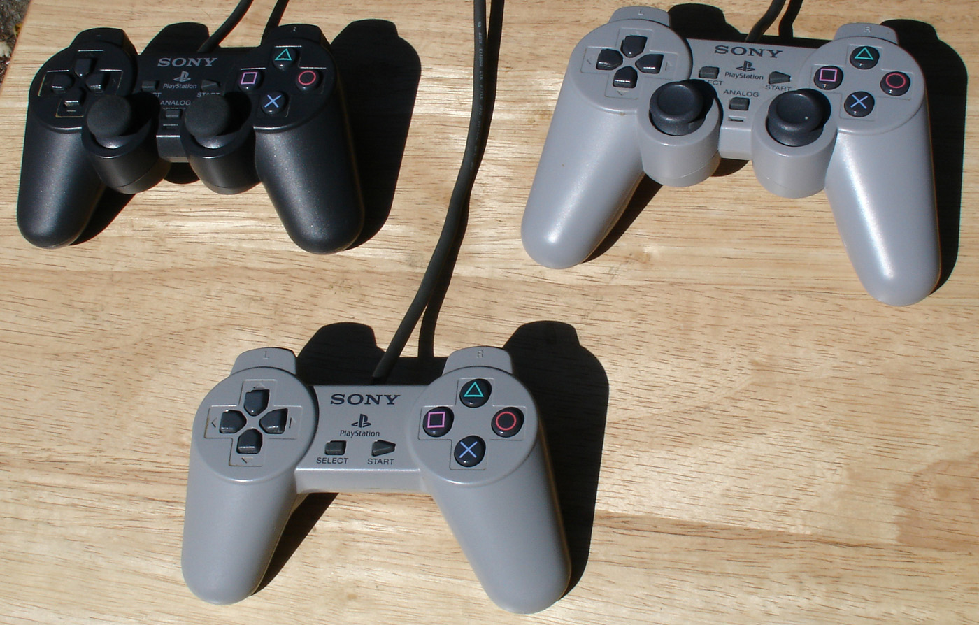 This is a picture of the three Sony control pads offered for the PlayStation 1. The earliest is at the bottom, the original PS1 D-pad (US version). The markings on the back are "CONTROLLER" and the model number is SCPH-1080. In the upper right is the second controller chronologically, the Dual Analog Controller (US version). Note the dished joysticks and much longer handles. The markings on the back are "ANALOG CONTROLLER" and the model number is SCPH-1180. In the upper left is a final controller offered, the DualShock(tm) controller (US black version). Note the mushroom-shaped joysticks, a return to the shorter handles. Although this controller is black, it is not a DualShock 2. The markings on the back are "ANALOG CONTROLLER" and the model number is SPCH-1200.